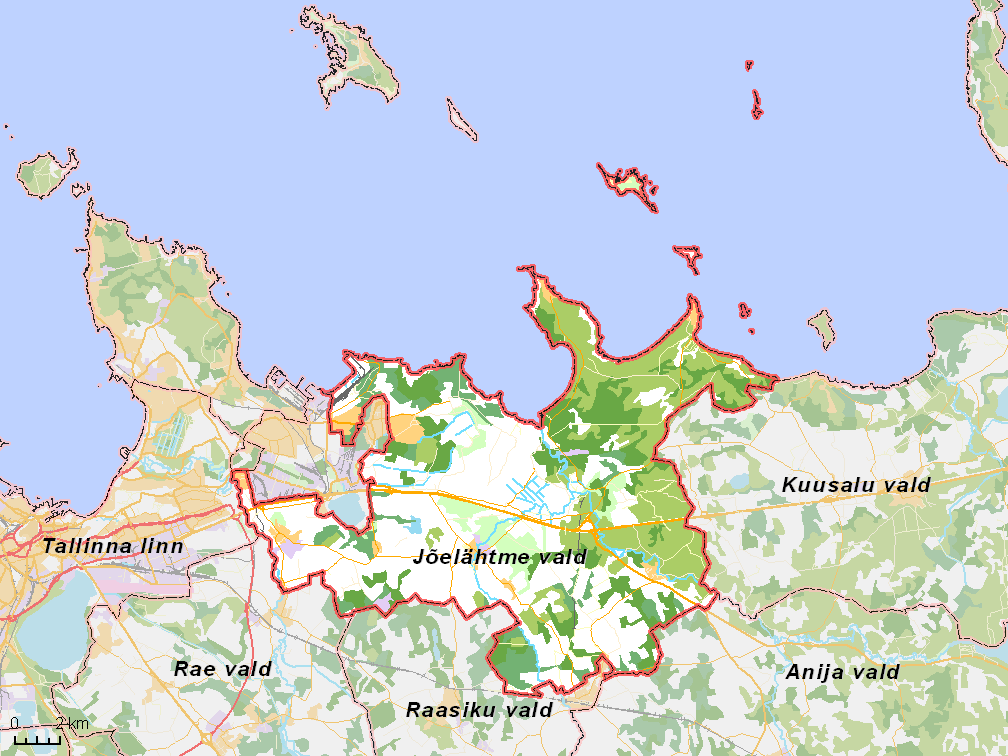 Map of municipality in Estonia